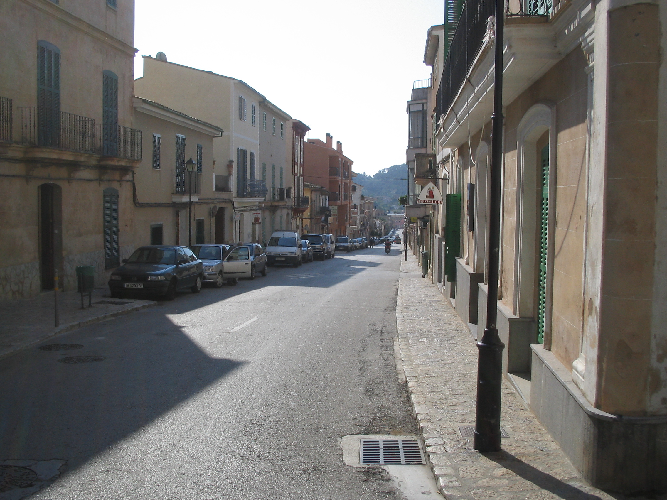 A spanish village called Andratx in Palma de Mallorca, Spain.